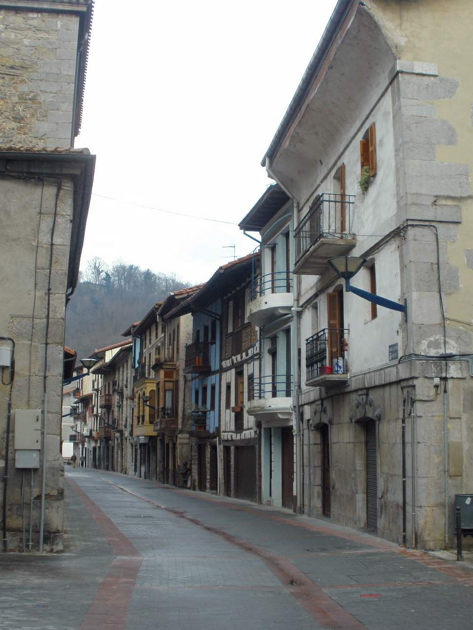 Calle de Alegia (Guipúzcoa)